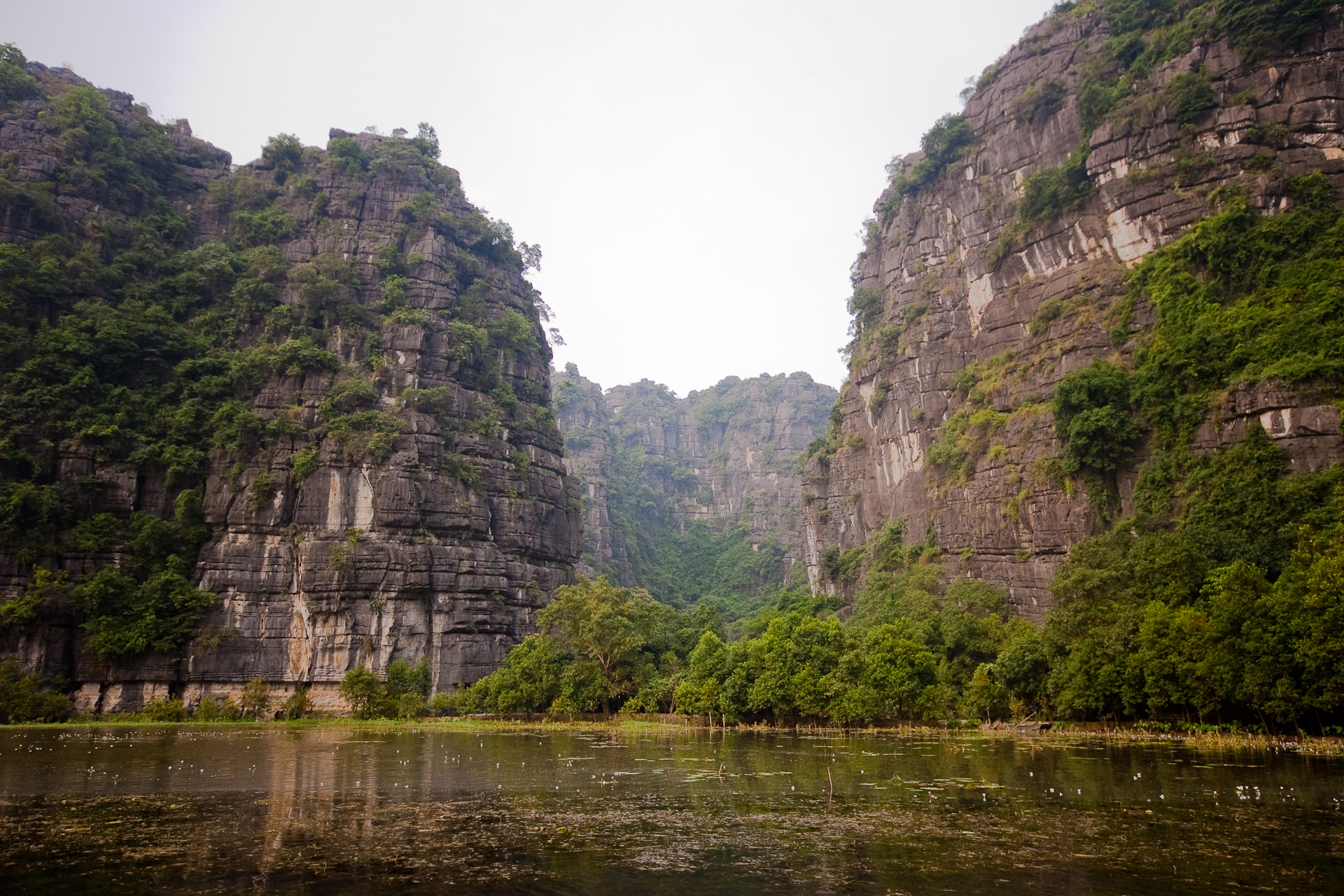 Tam Cốc landscape, Ninh Bình province, Vietnam